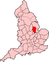 Map showing Kesteven in Lincolnshire